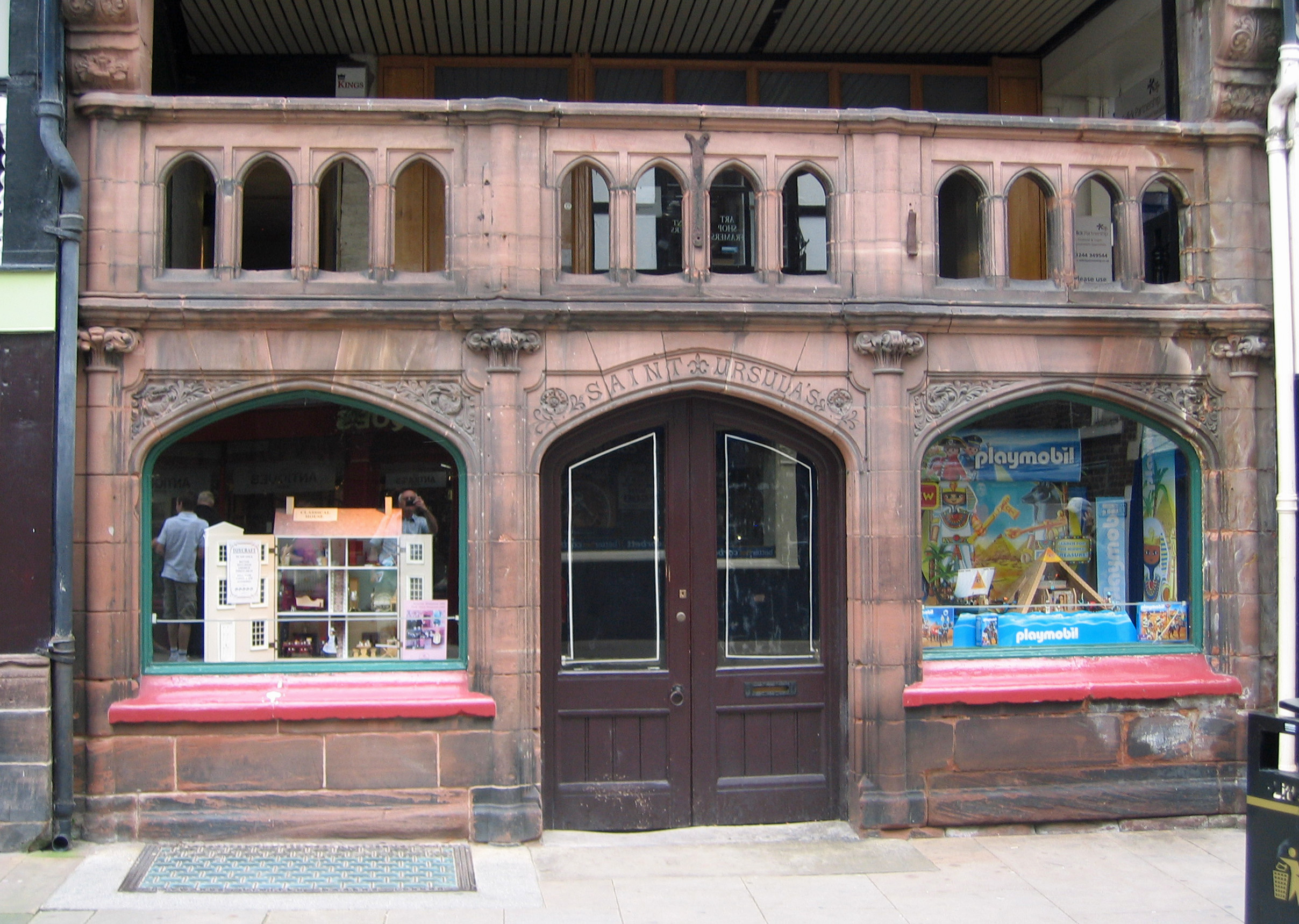 Photograph of the shop front with inscription of St Ursula's, Watergate Street, Chester, Cheshire, England